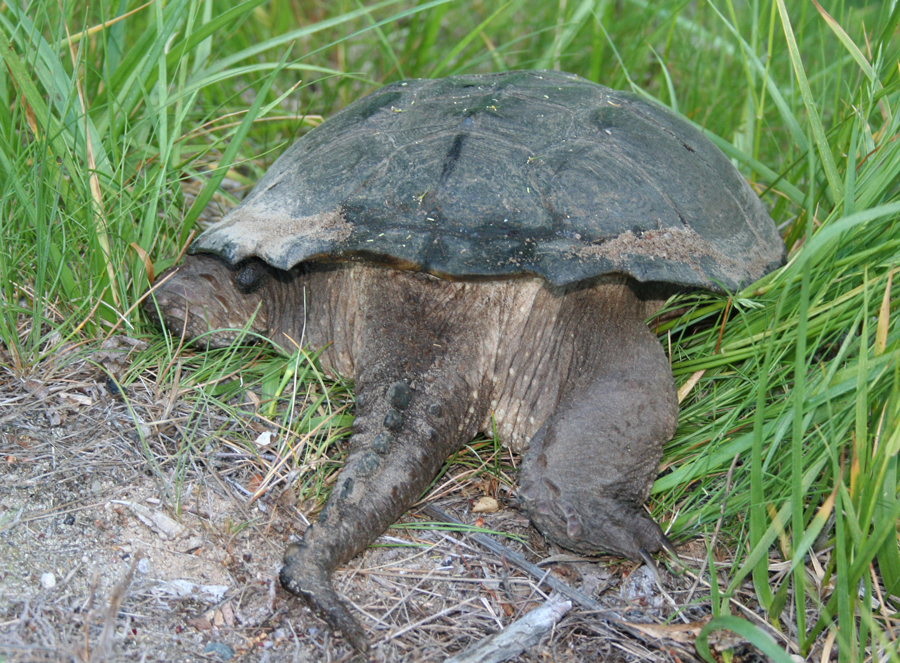 Snapping Turtle tail. Blue Hills Reservation, Massachusetts.